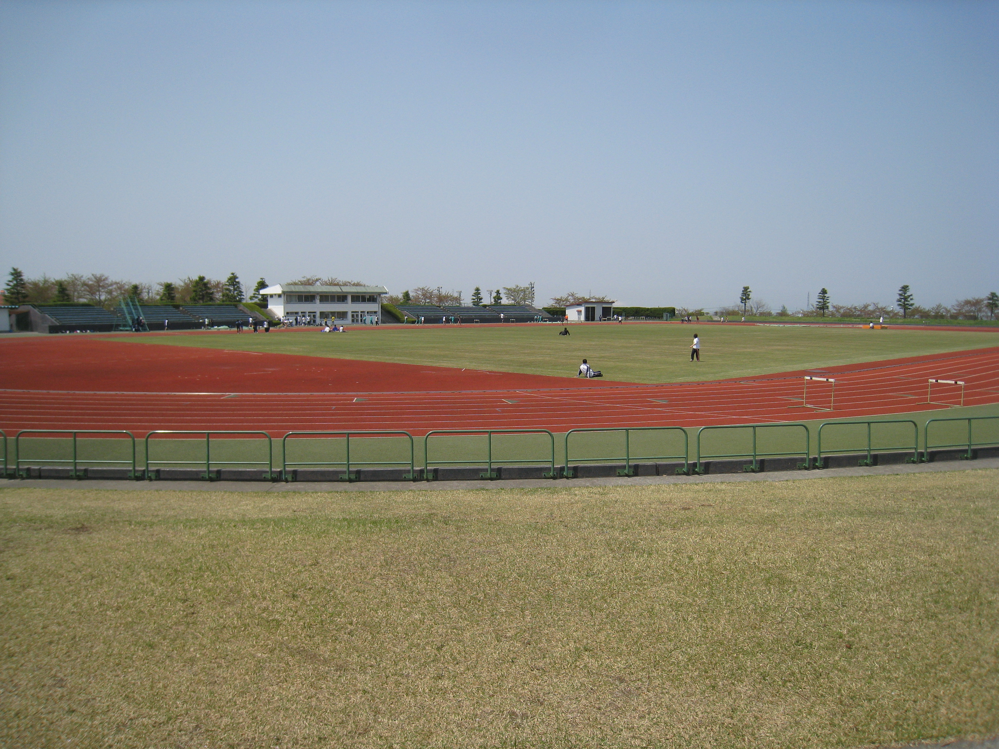 Hachinohe-Higashi Athletic Stadium